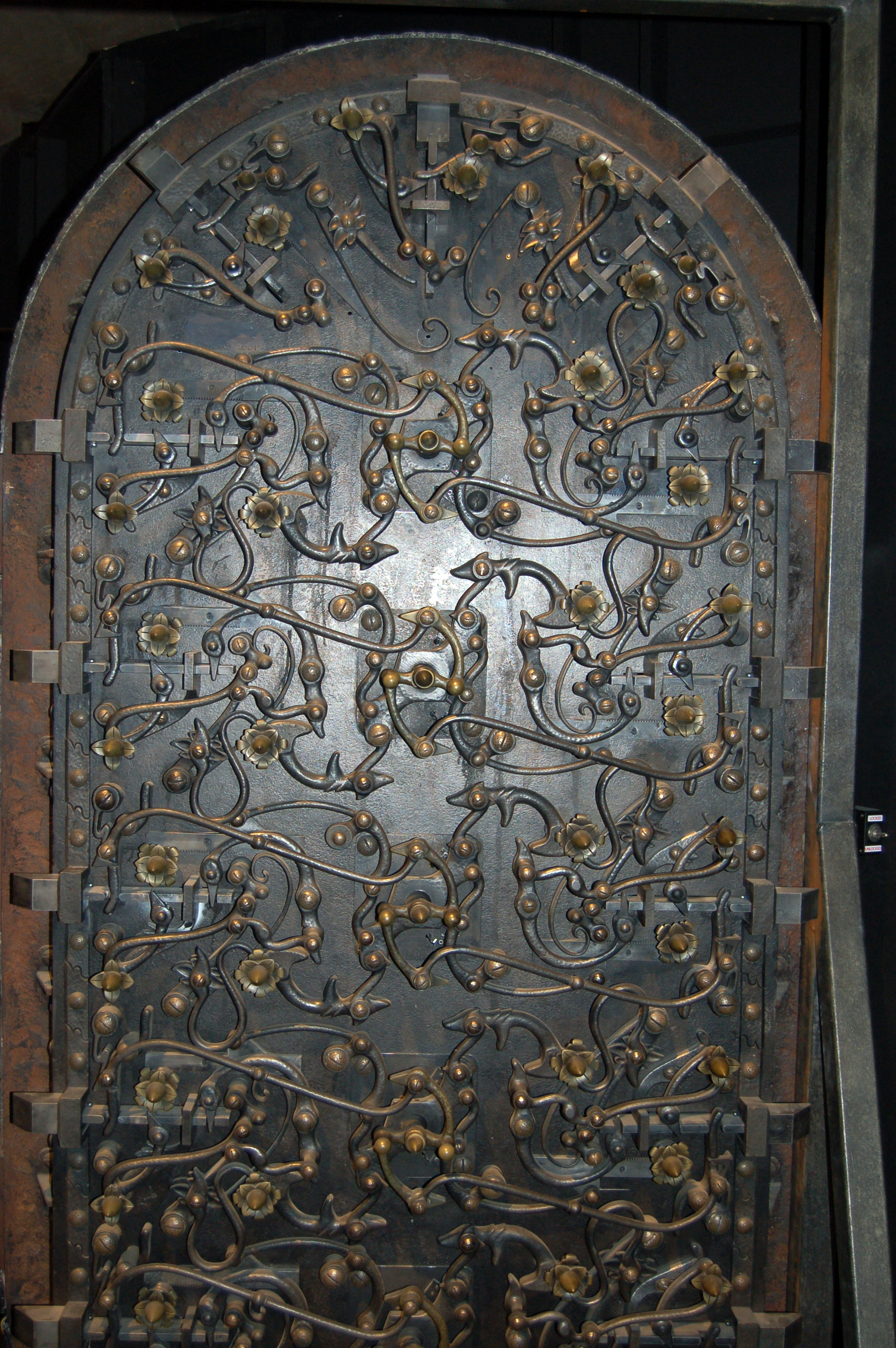 Originally built for Harry Potter and the Philosopher's Stone, many of the moving parts for this motorised vault door were designed and hand-cast in metal.